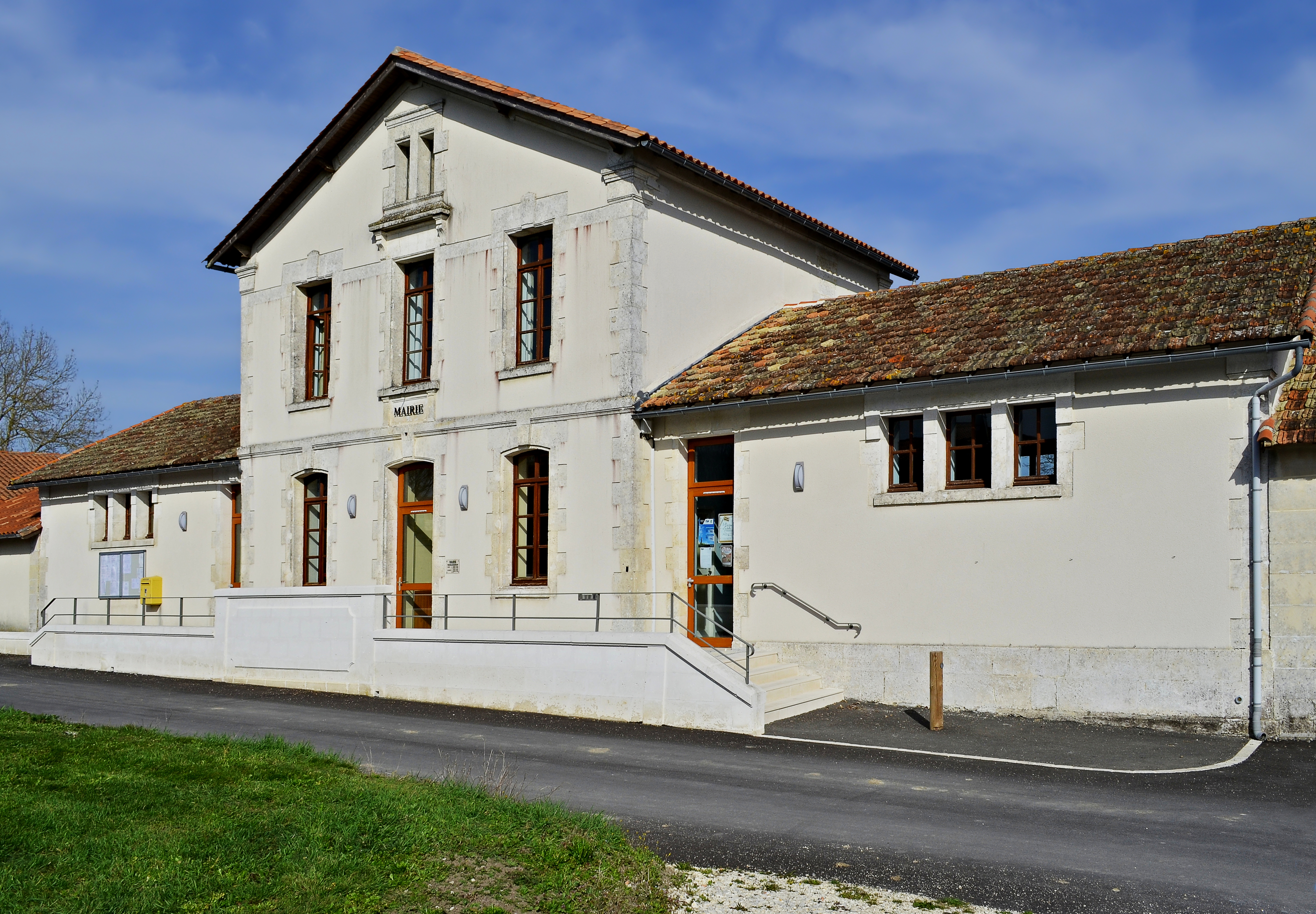 City hall of Plassac-Rouffiac, Charente, France.